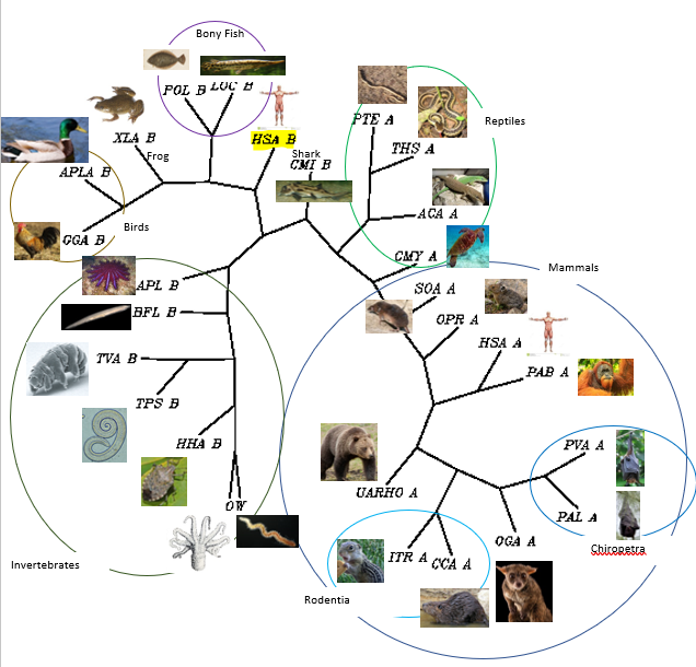 this is an unrooted phylogenetic tree for tmem151A created in gene